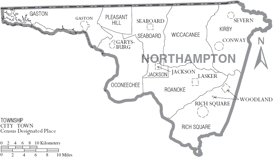 Map of Northampton County, North Carolina, United States with township and municipal boundaries